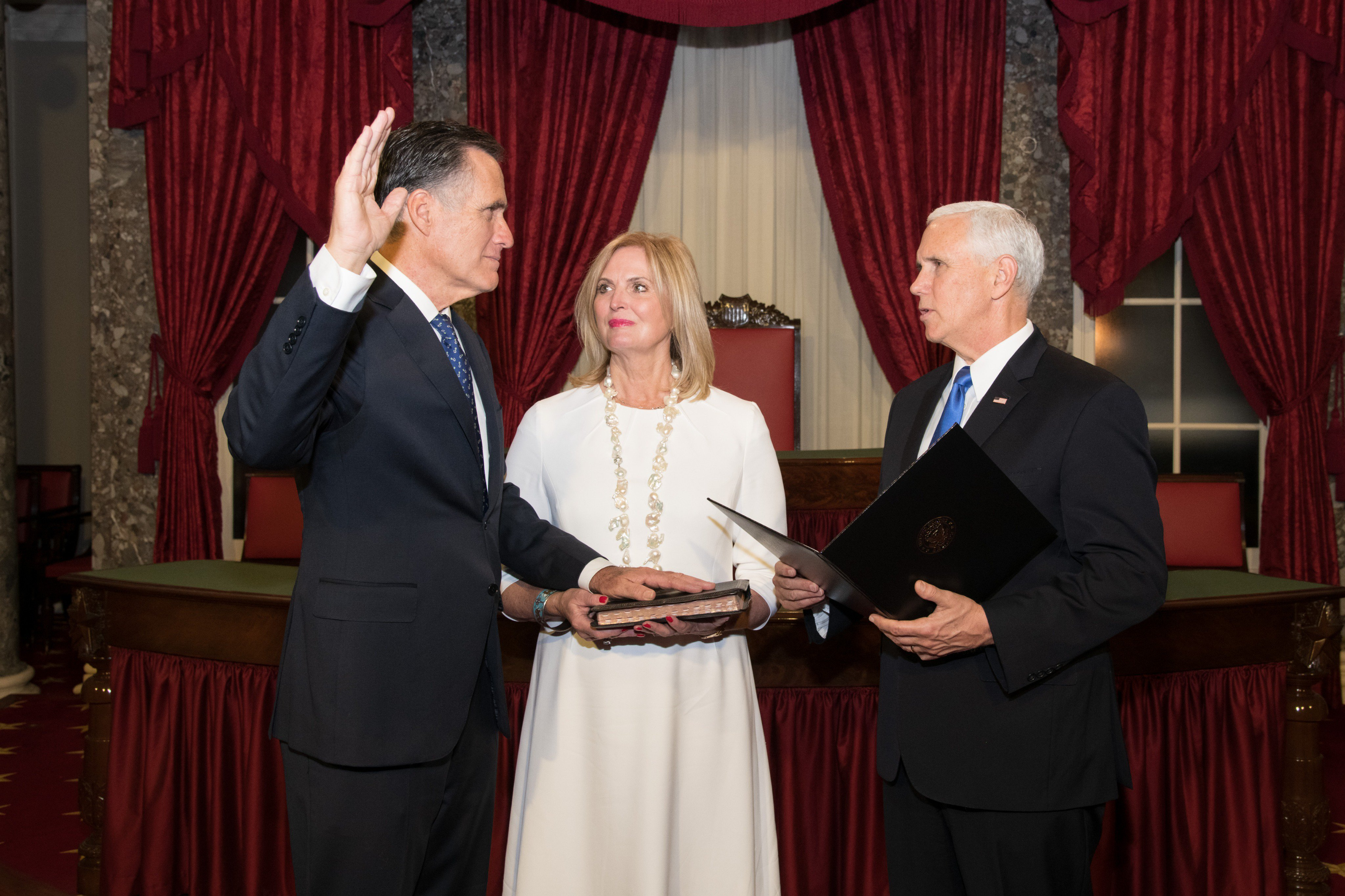 To the people of Utah: Thank you for entrusting me with the responsibility of serving you in the United States Senate. Mitt Romney being sworn in as a United States Senator from Utah by Vice President Mike Pence.